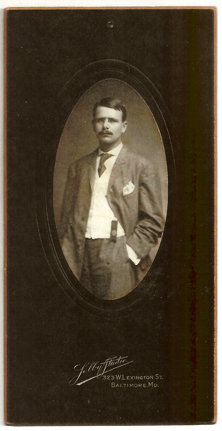 Photograph taken in Baltimore, Maryland of Edmund C. Lynch, founder of Merrill Lynch.